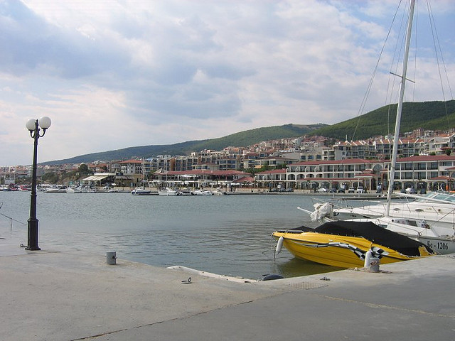 View of Sveti Vlas, Bulgarian Black Sea coast